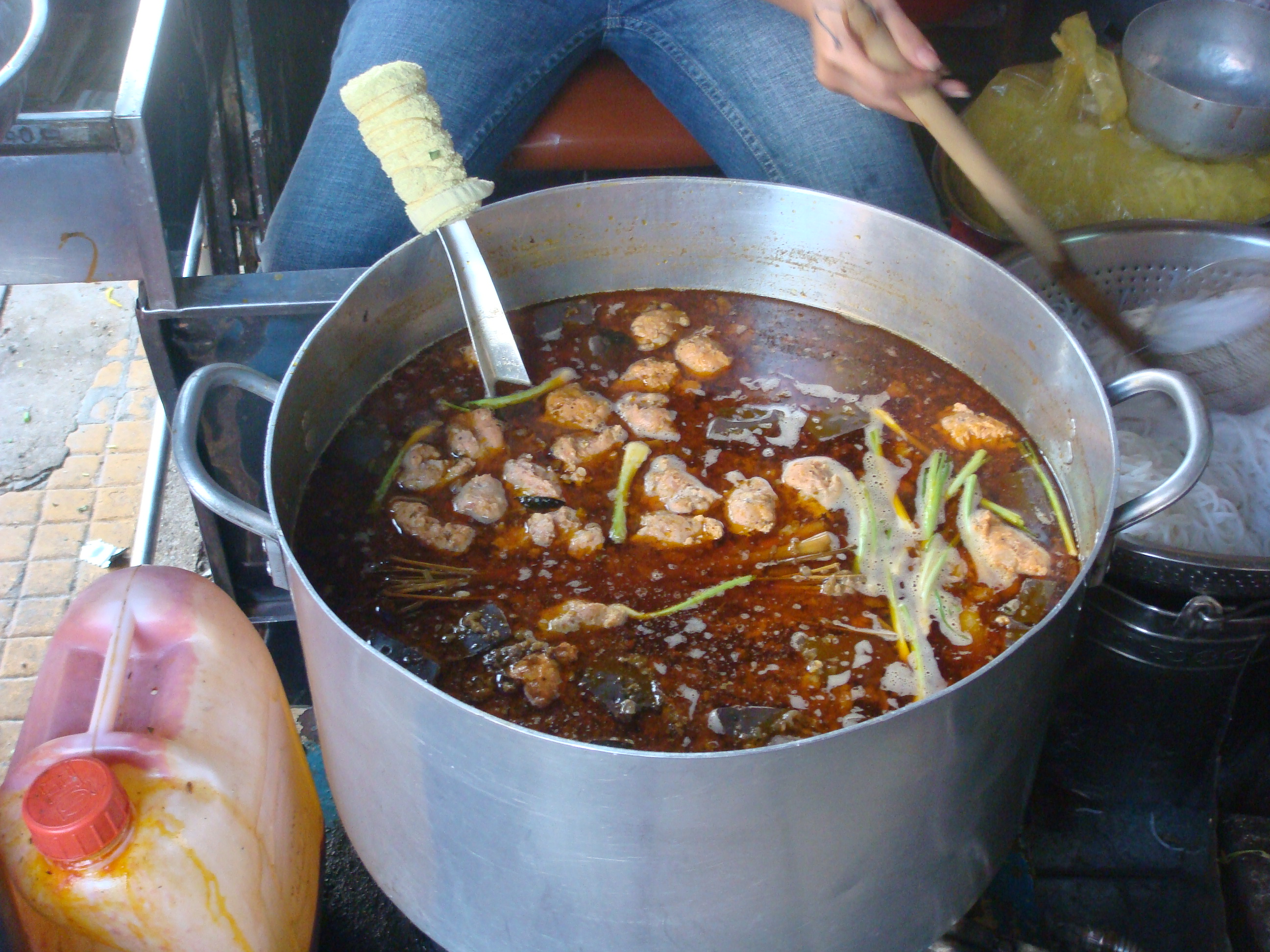 Pot of bun bo Hue, taken Feb 2009 @ Bui Vien, French Quarter, Saigon.